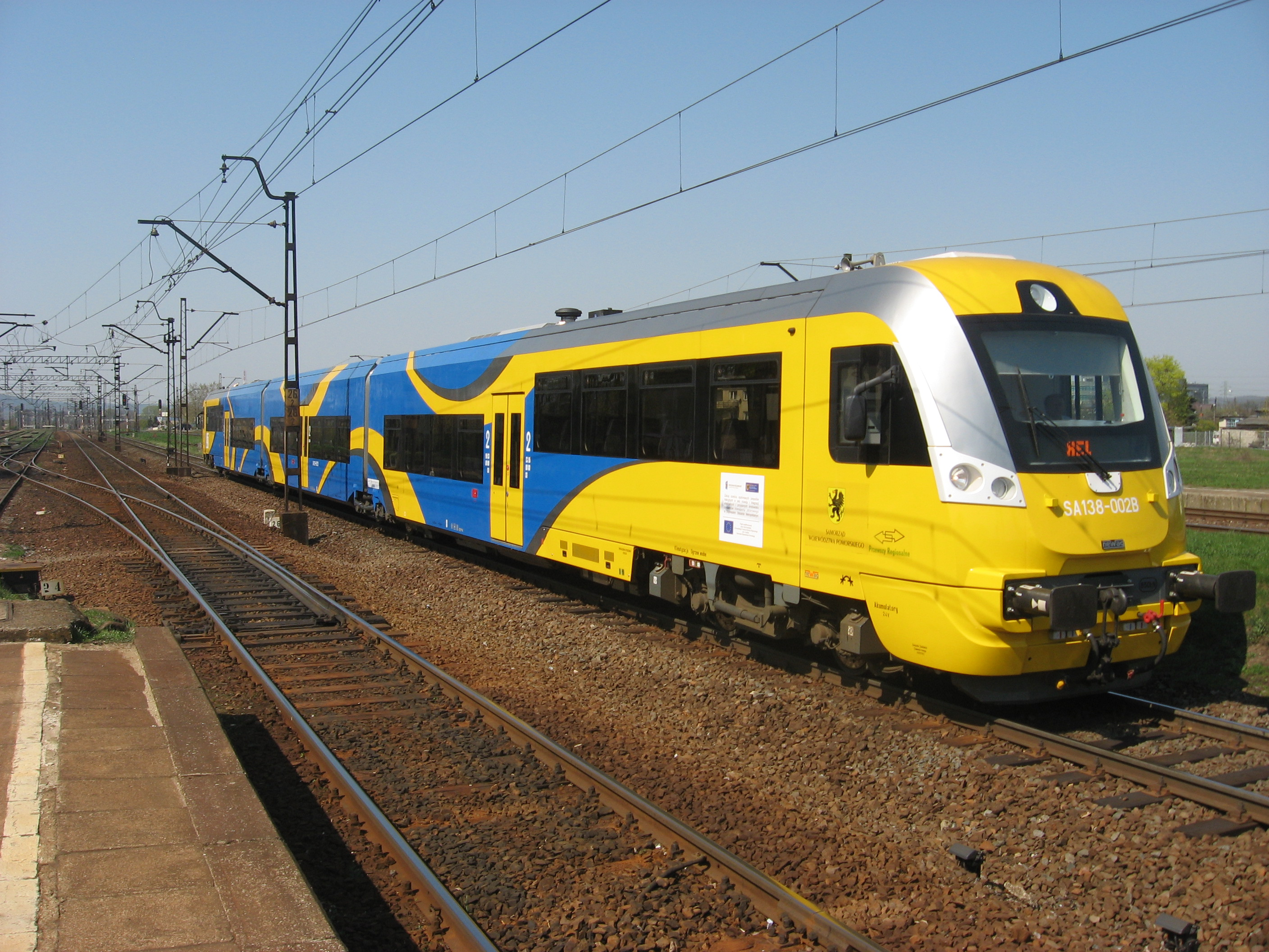 Diesel multiple unit SA138-002 on train station Gdynia Chylonia.